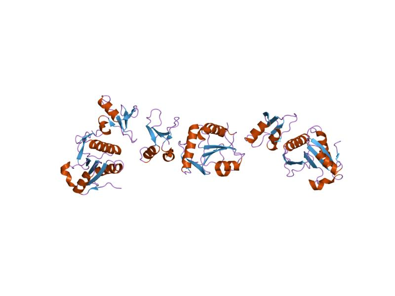 Cartoon representation of the molecular structure of protein registered with 1syx code.